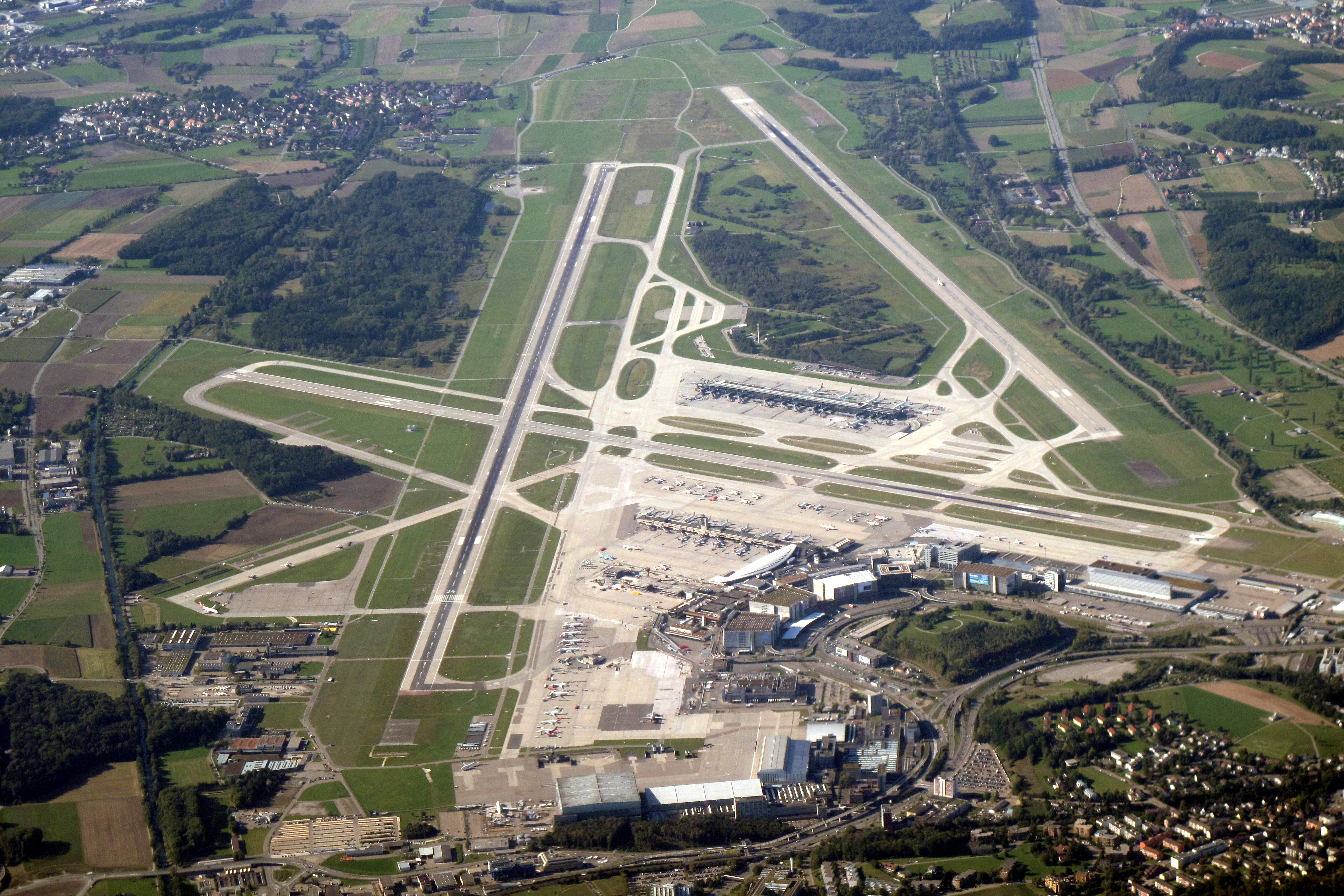 Aerial photograph of Zürich Airport